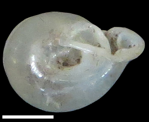 Photo of an umbilical view of a shell of holotype of Perrottetia hongthinhae (holotype, VNMN_IZ 000.000.153). Locality: Vietnam, Lai Chau Province, Nam Loong Commune, Lai Chau City, 22°25’16”N, 103°22’25”E, 1,226 m; 12.07.2015). Scale bar is 2 mm.